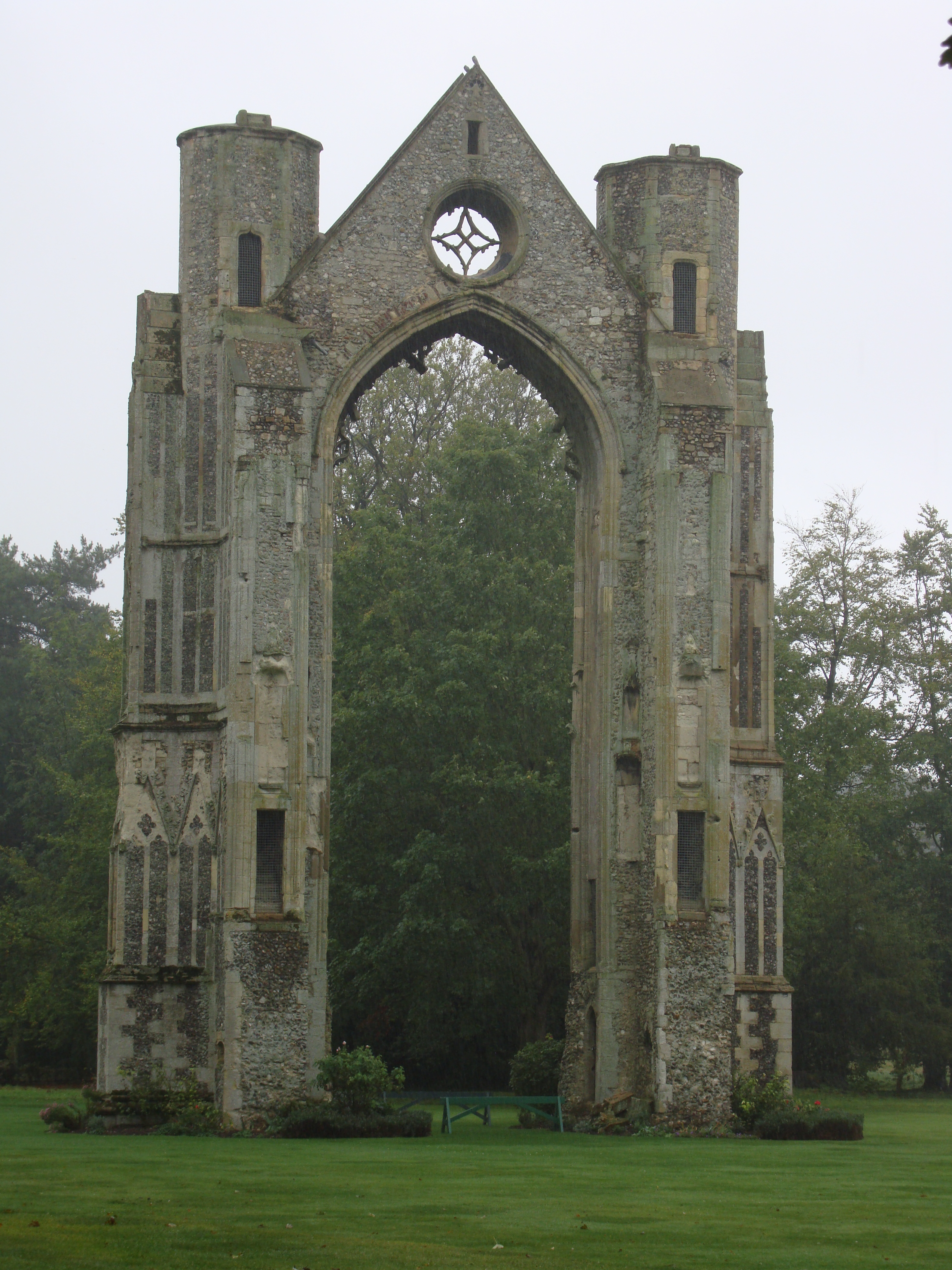 Photograph of the remains of Walsingham Priory, Norfolk